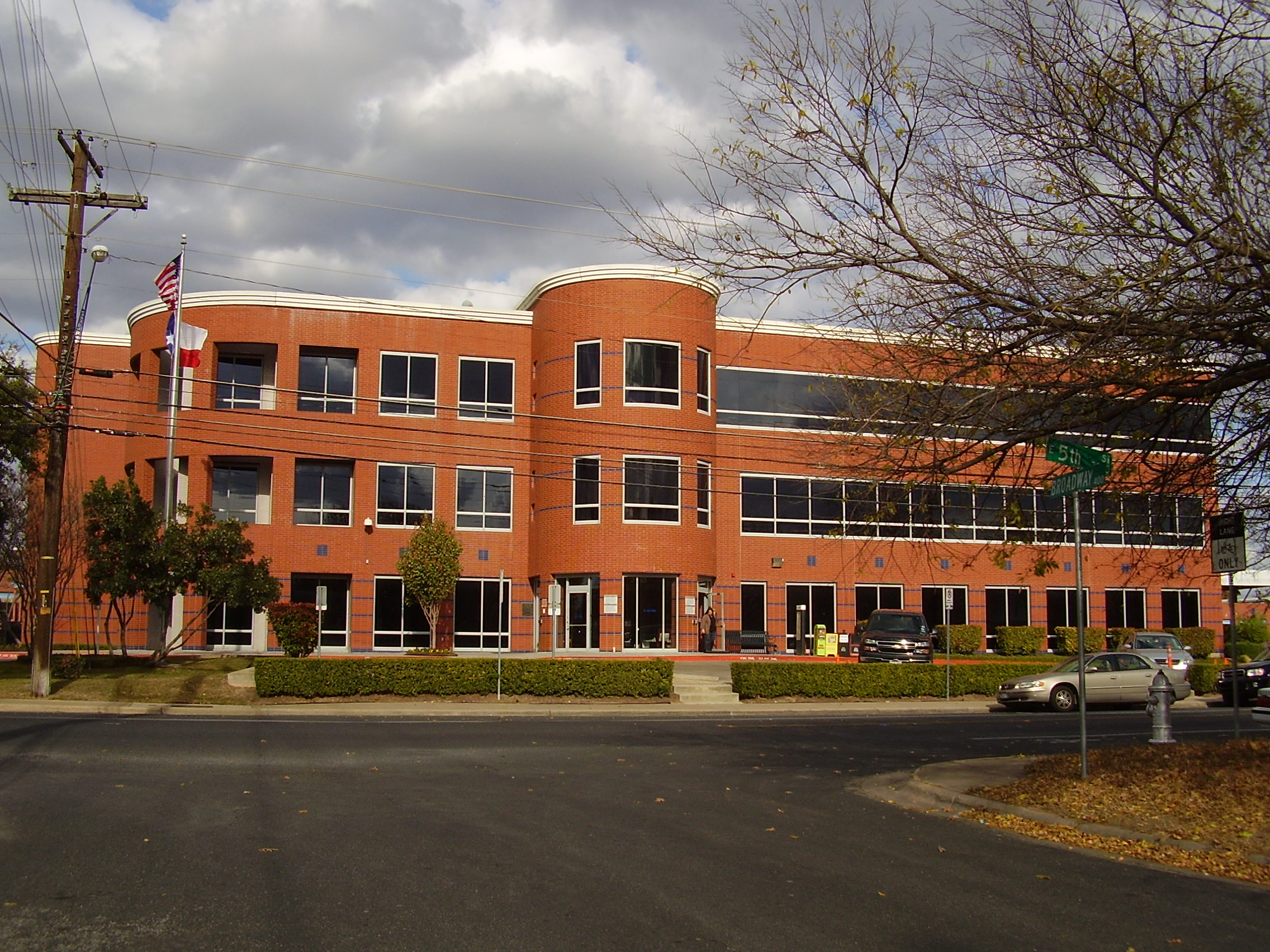 Capital Metro headquarters